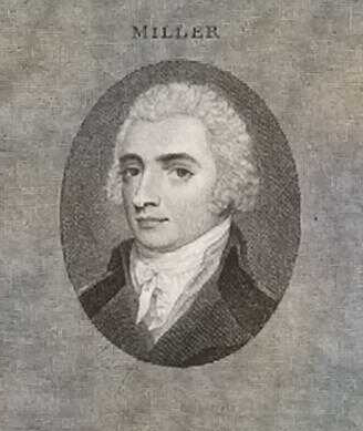 Victors of the Nile (with 15 cameo portraits of naval officers) (proof) As Nelson said after the Battle of the Nile in 1798, ‘Victory is not a name strong enough for such a scene’. His captains are all commemorated in this celebratory engraving published five years later; Thomas Foley, Samuel Hood, Sir James Saumarez, David Gould, Ralph Miller, Sir Edward Berry, Thomas Louis, John Peyton, Henry Darby, George Westcott (killed in the battle), Thomas Thompson, Alexander Ball, Benjamin Hallowell, Thomas Troubridge and Thomas Hardy. Nelson was made Baron Nelson of the Nile, and adopted the motto ‘Palmam qui meruit ferat’ (Let he who has earned it bear the Palm). Victors of the Nile (with 15 cameo portraits of naval officers) (proof)